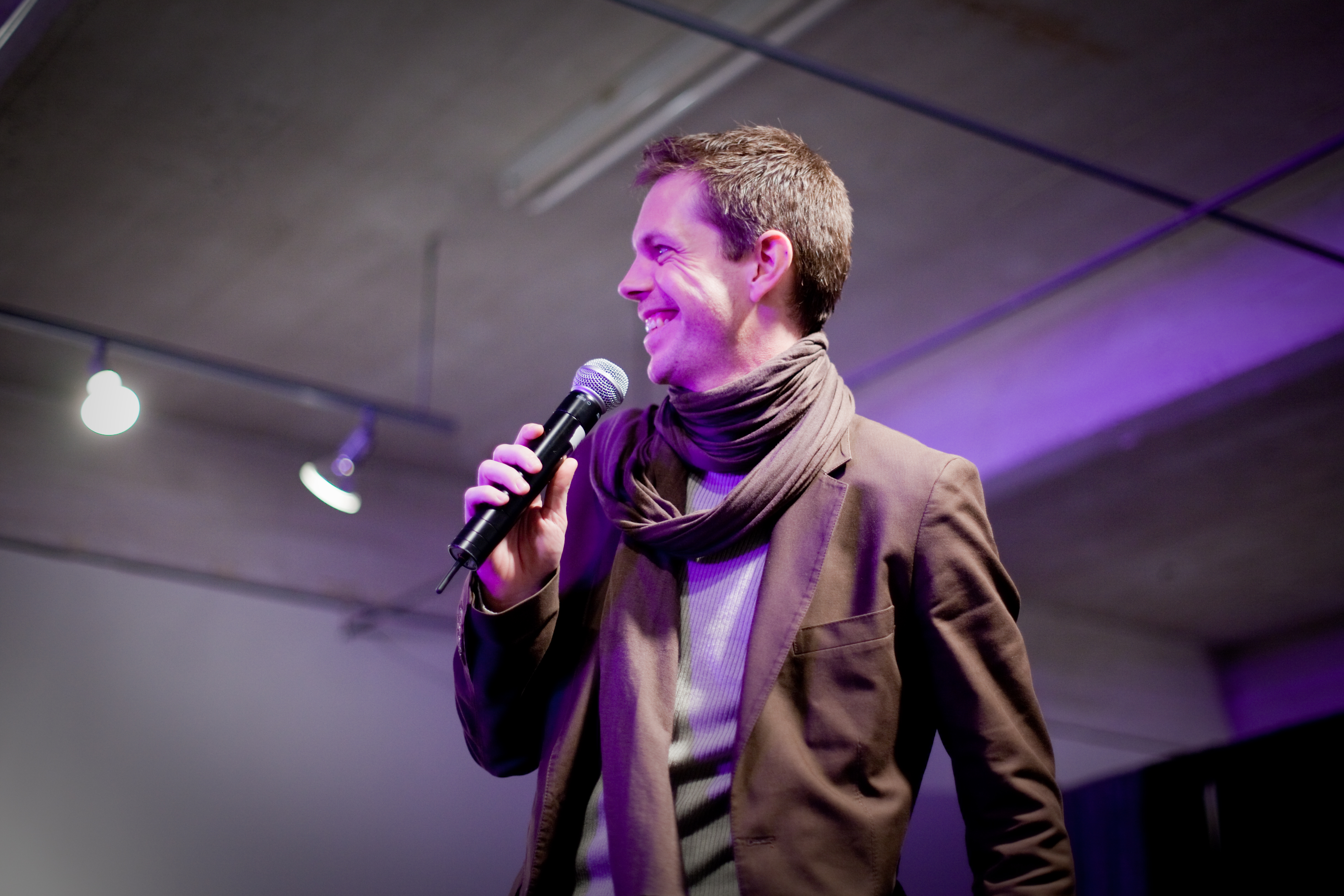 Dominic Walsh, the artistic director of the eponymous Houston based Dominic Walsh Dance Theater. Taken at Artopia 2010.